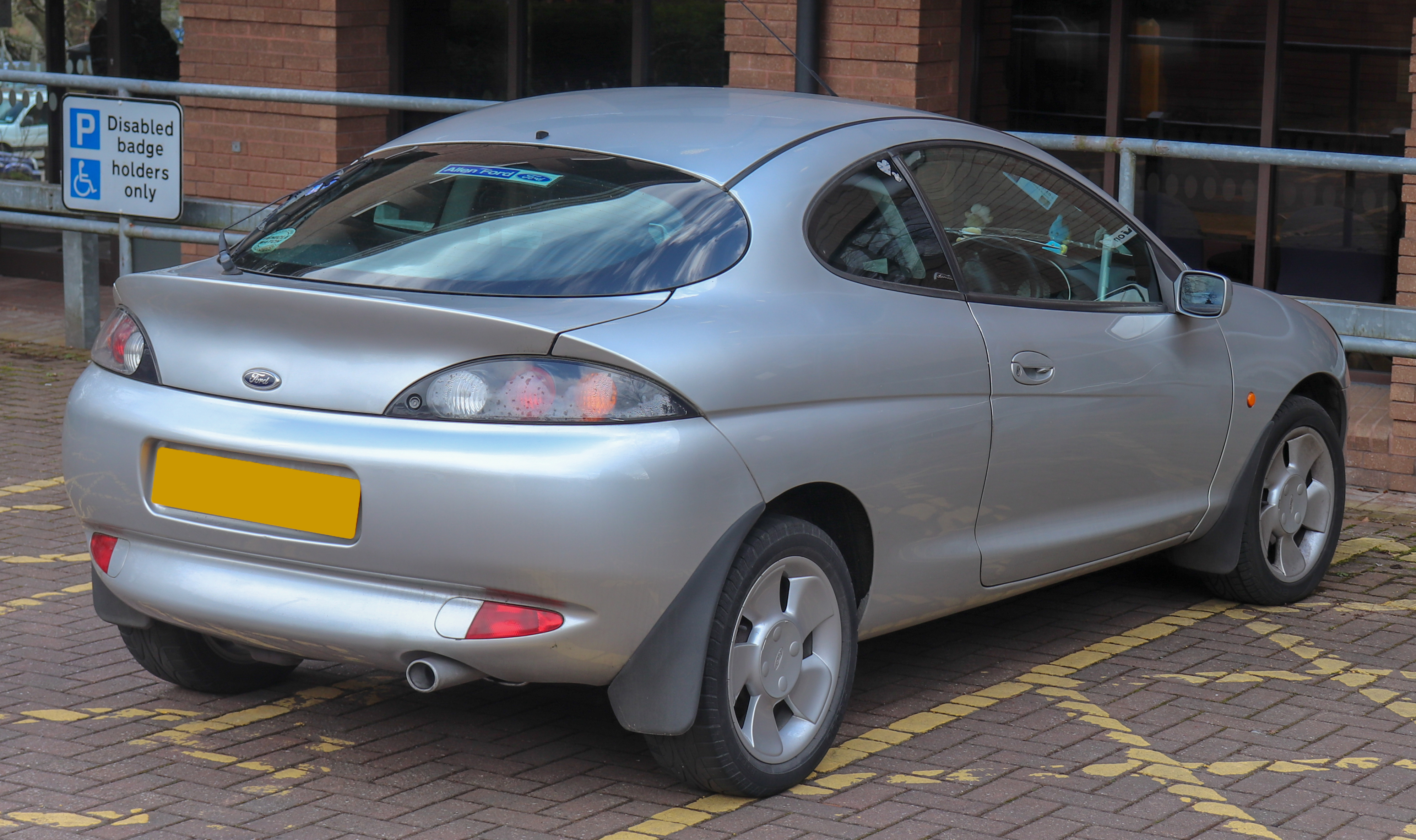 1999 Ford Puma 16V 1.4 Taken in Leamington Spa